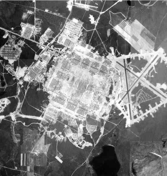 Aerial photograph of Camp Edwards and Otis Field in 1943